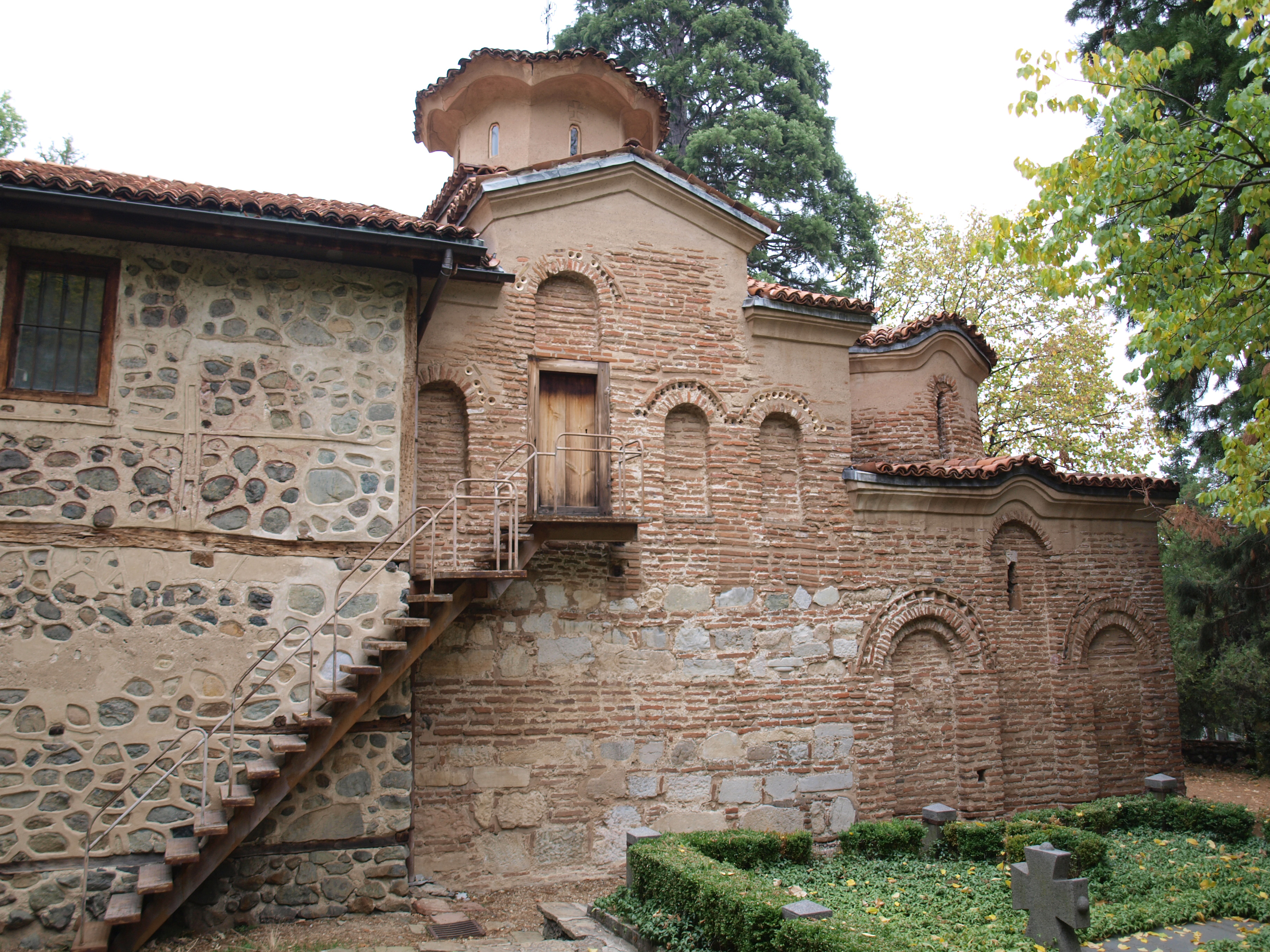 Boyana Church, Sofia